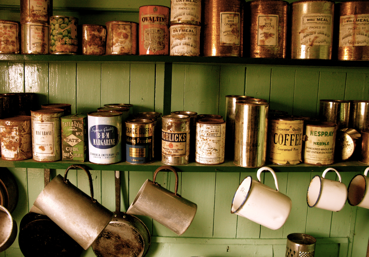 Tin cans - Port Lockroy - Antarctic Peninsula